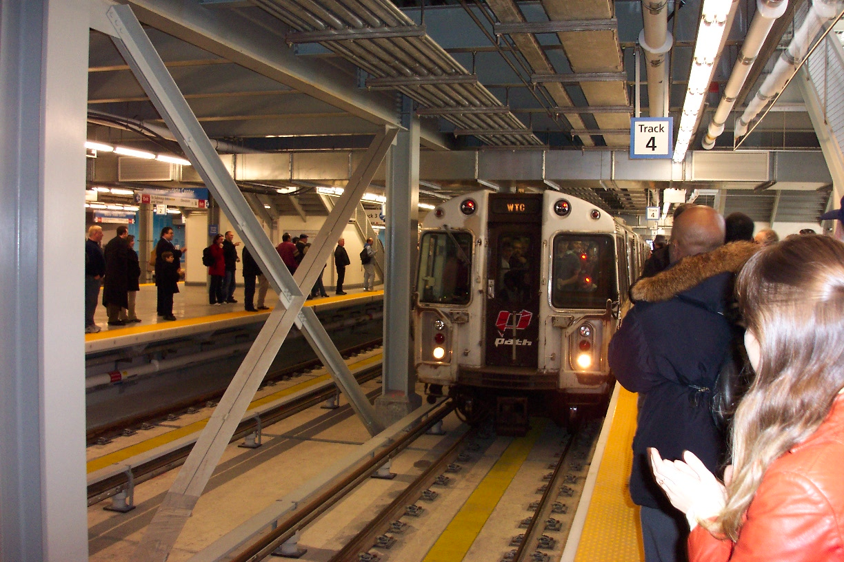 Inaugural train arrives from Newark at PATH's temporary WTC station at 2:08 PM, November 23, 2003. Note passengers on platforms applauding its arrival. Photo by author.